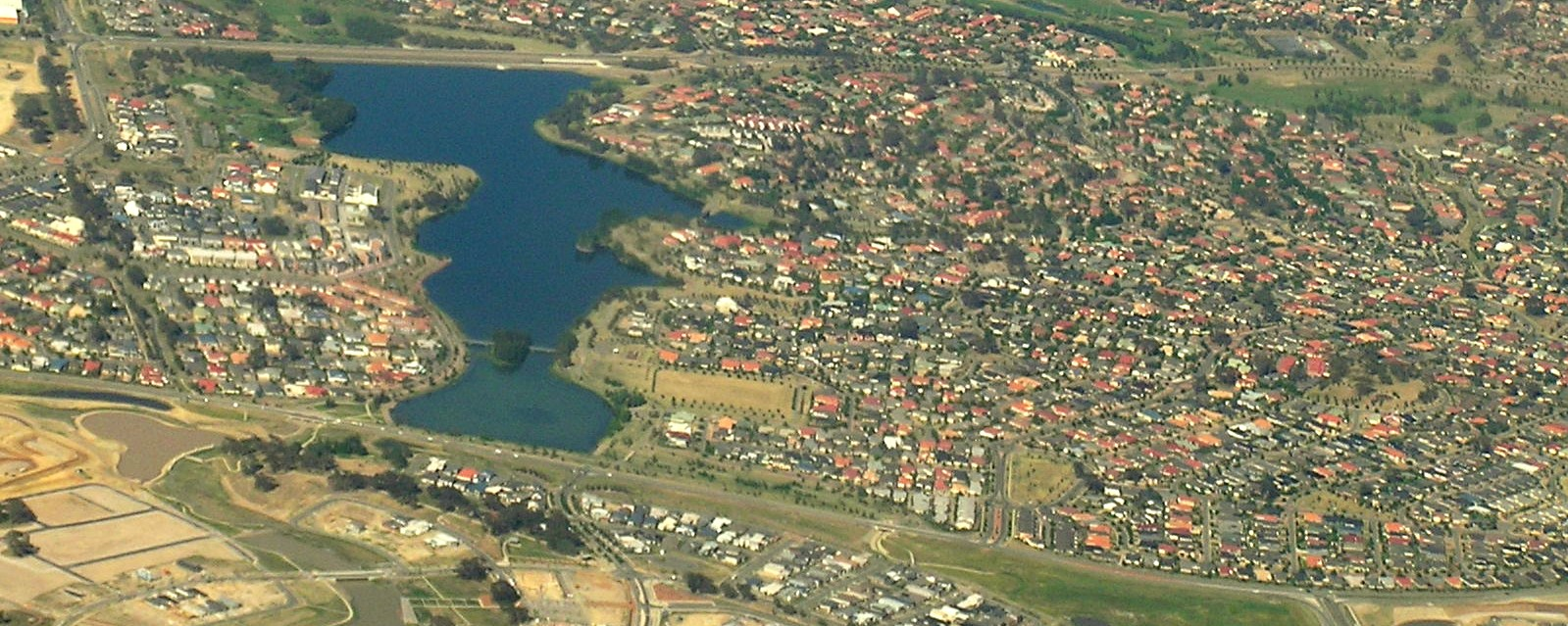 east end of Amaroo aerial view, Yerrabi ponds on left is border